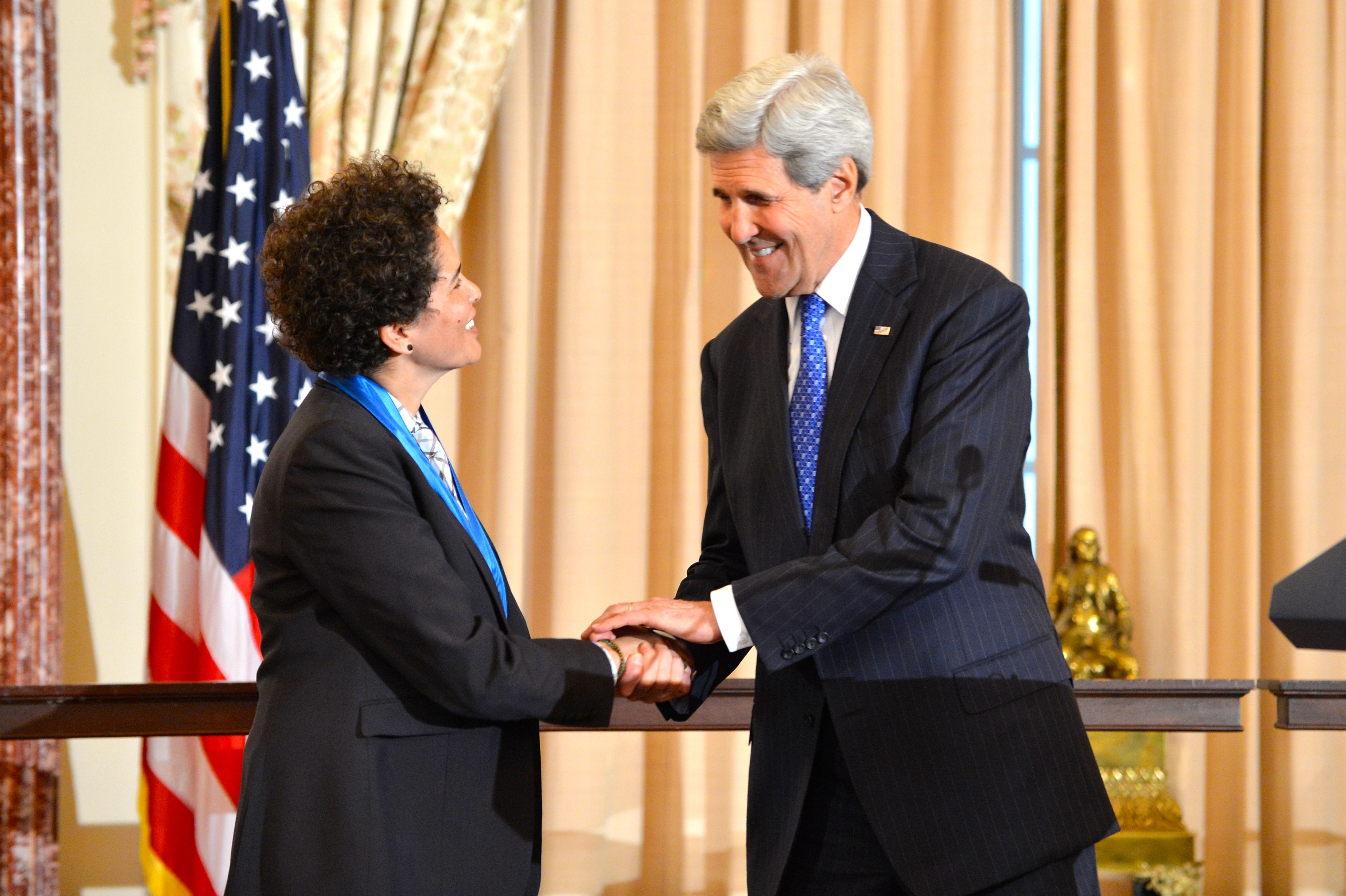 U.S. Secretary of State John Kerry awards Julie Mehretu the Medal of Arts Lifetime Achievement Award at the Art in Embassies Medal of Arts Award Luncheon at the U.S. Department of State in Washington, D.C., on January 21, 2015. [State Department photo/ Public Domain]